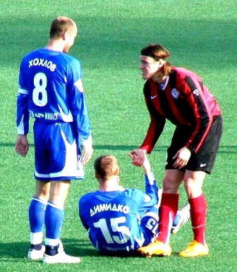 2008 Russian Football Premierleague (FC Amkar v.s. FC Dinamo Moscow)